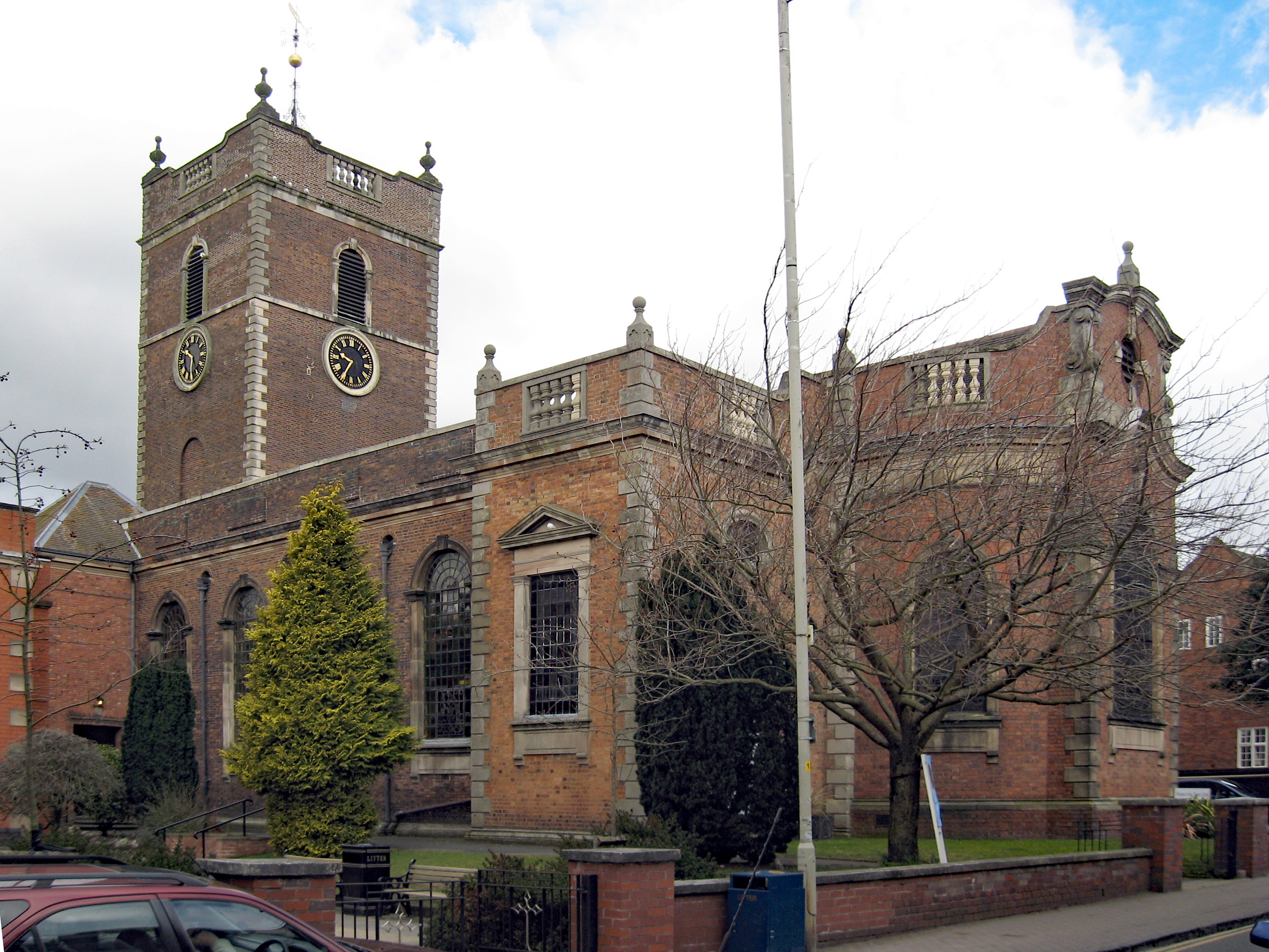 St Thomas'’s parish church, Stourbridge, West Midlands, seen from the southeast. Building of the church started in 1728 and was nearly complete by 1736. On the right is the chancel, added in 1890.